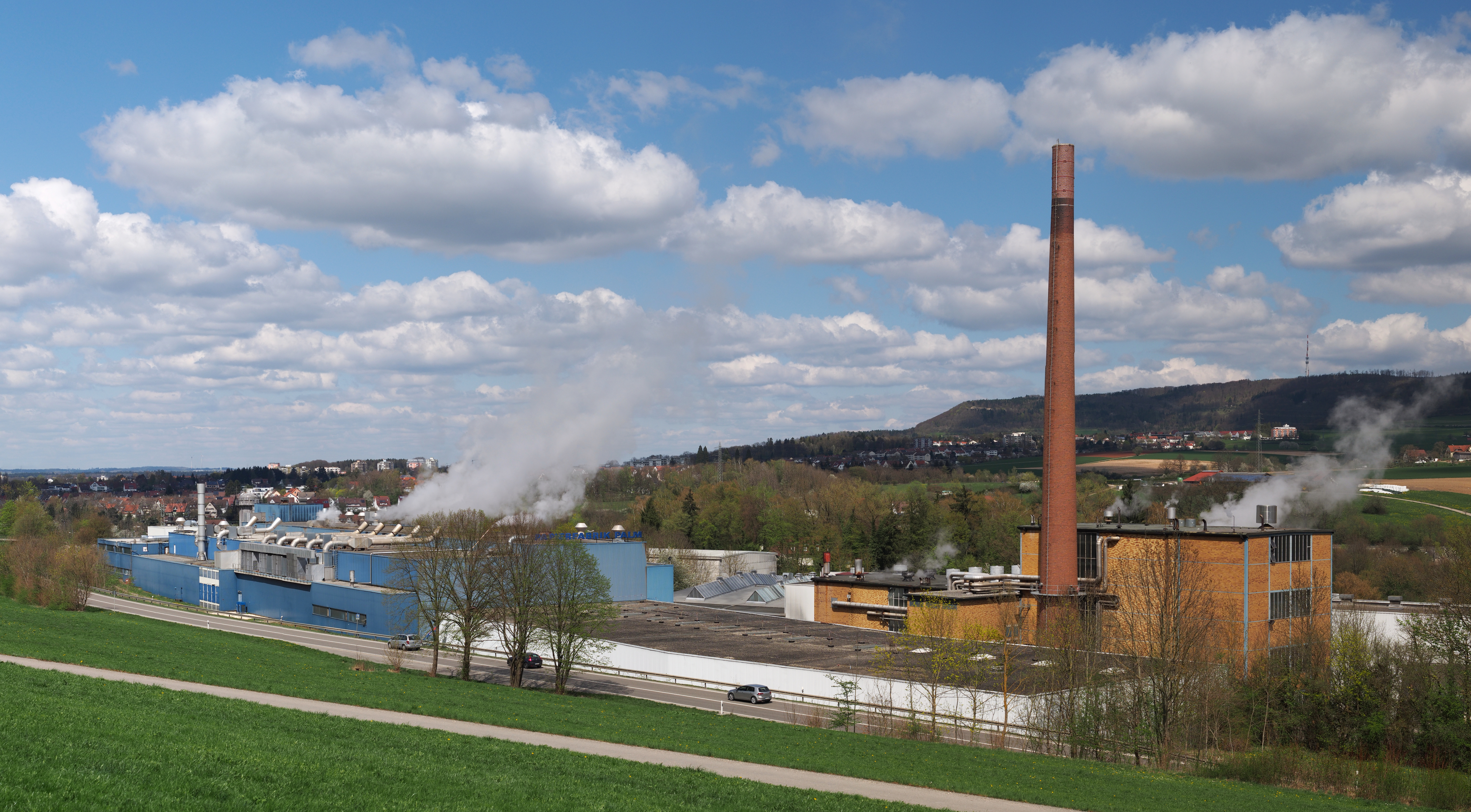 Palm paper mill, Aalen – yes, there’s quite a lot of stitching errors.